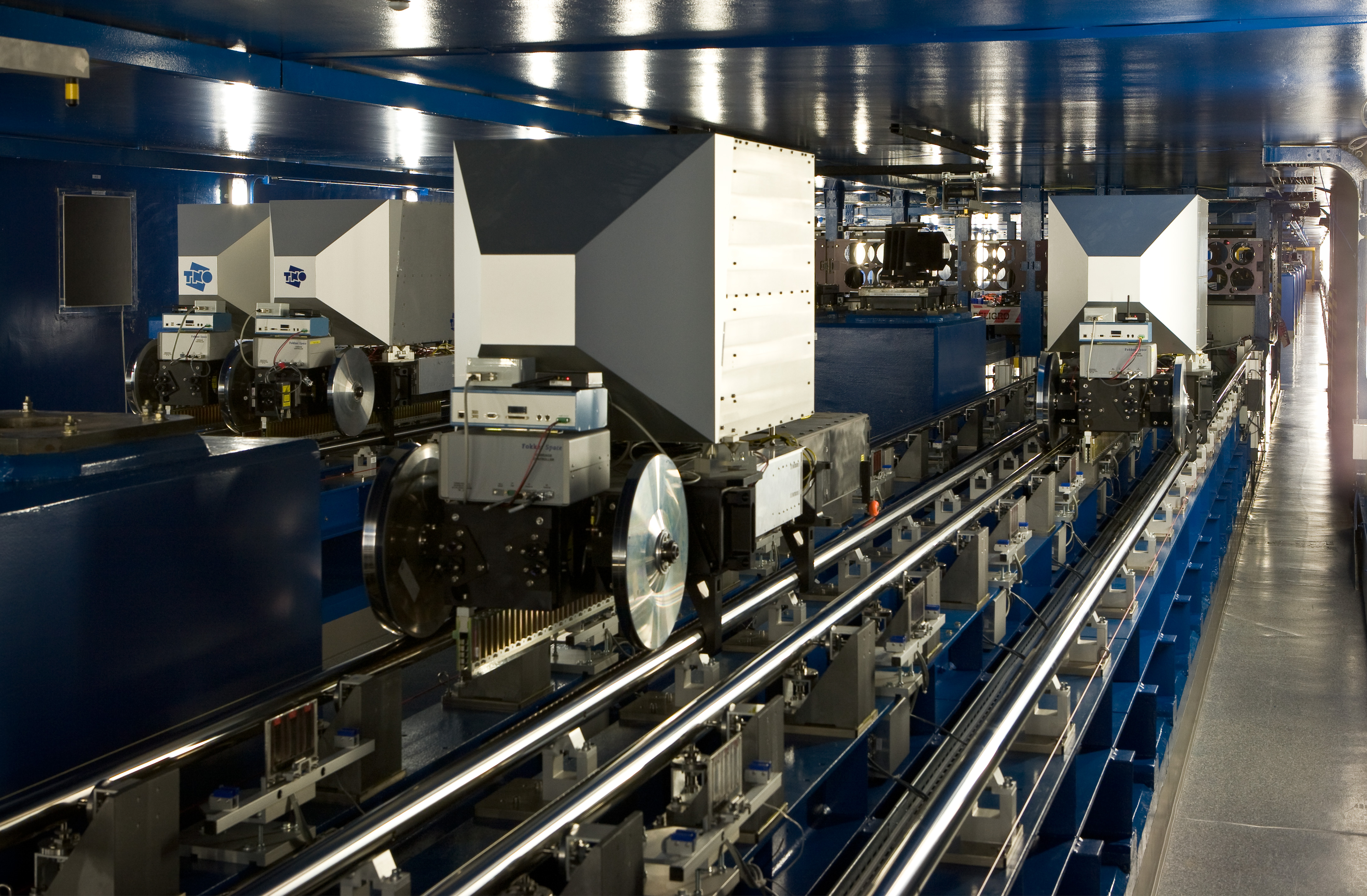 The Very Large Telescope Interferometric Tunnel. This image was obtained in November 2007. Credit: ESO